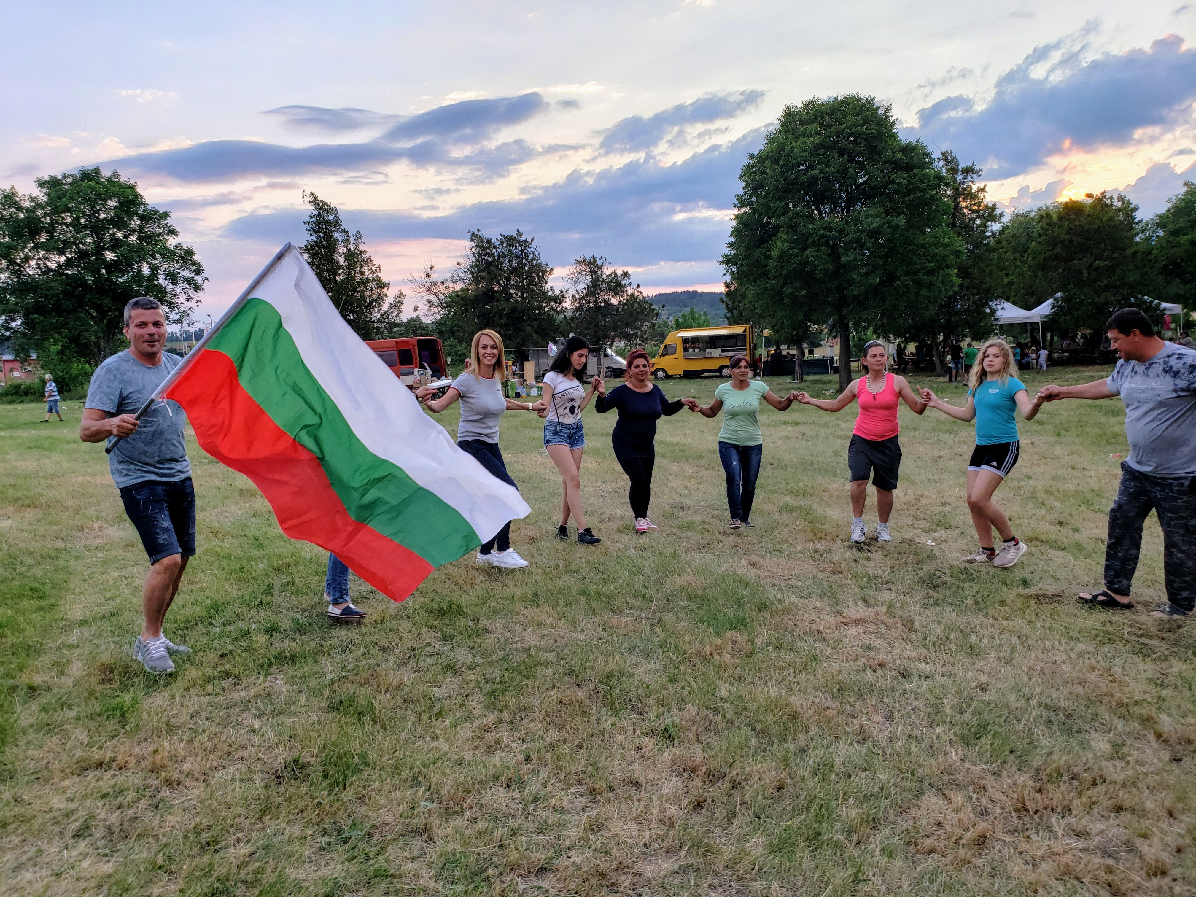 Събор с.Старосел